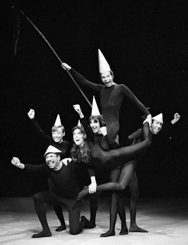 Janet Carafa - Lead company member of the American Mime Theatre directed by Paul J Curtis